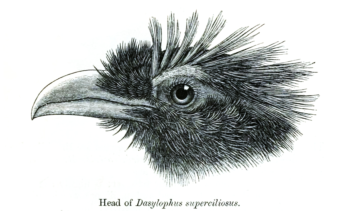 Rough-crested Malkoha, head from lateral